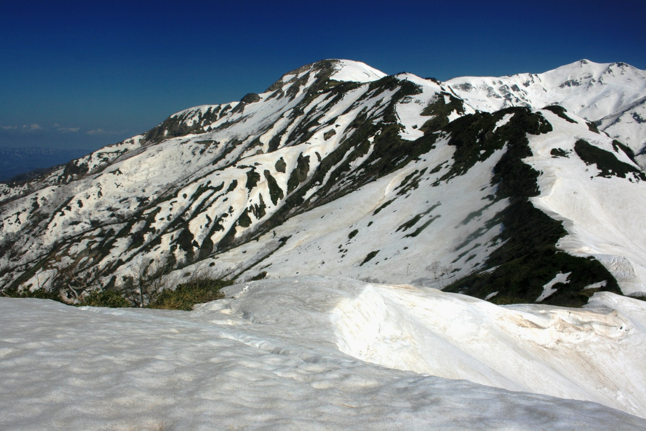 Mount Sannomine seen from Mount Choshi in Ryohaku Mountains, Japan.